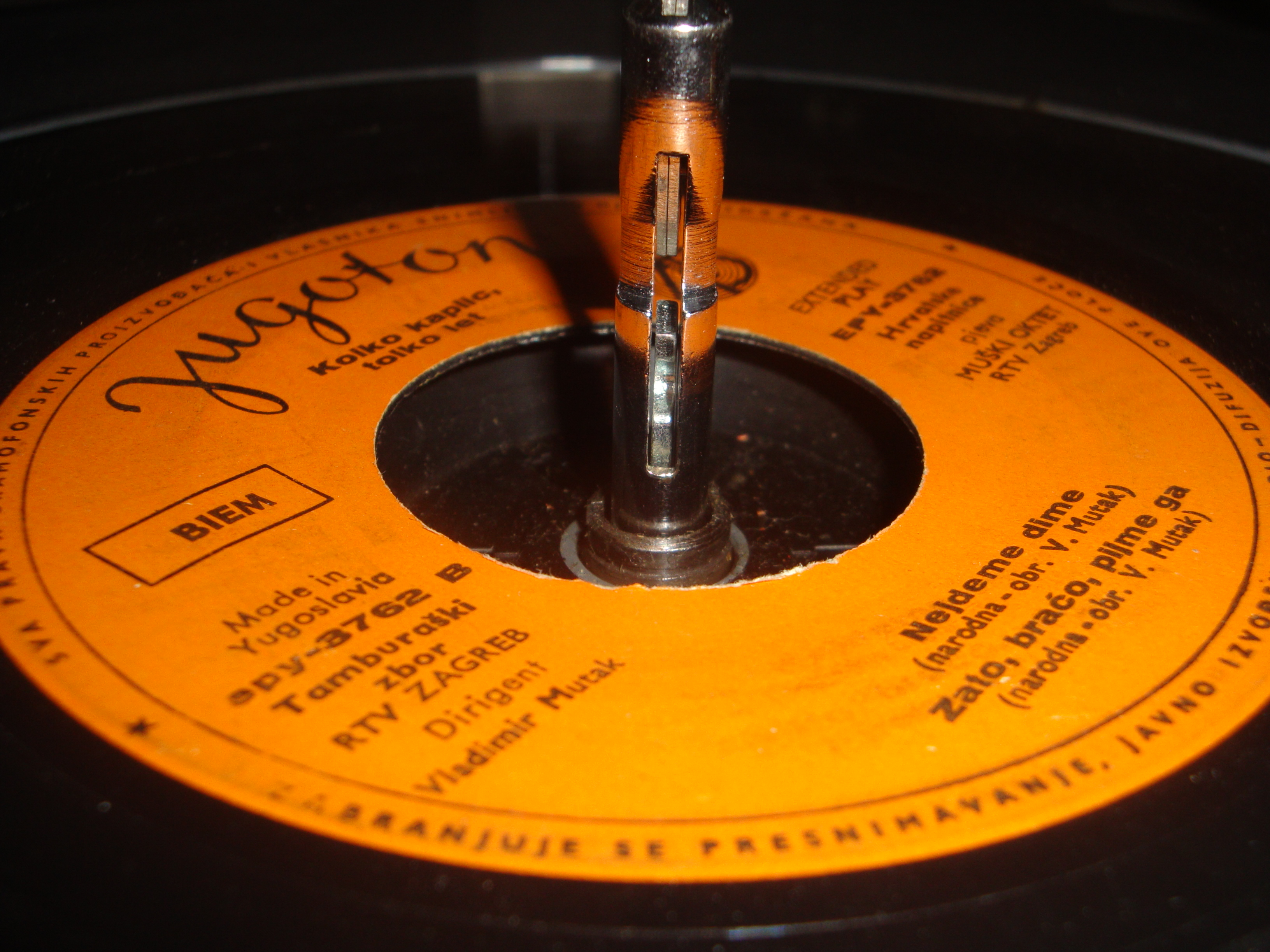 Vinyl single disc label "Jugoton"of the Socialist Federal Republic of Yugoslavia.